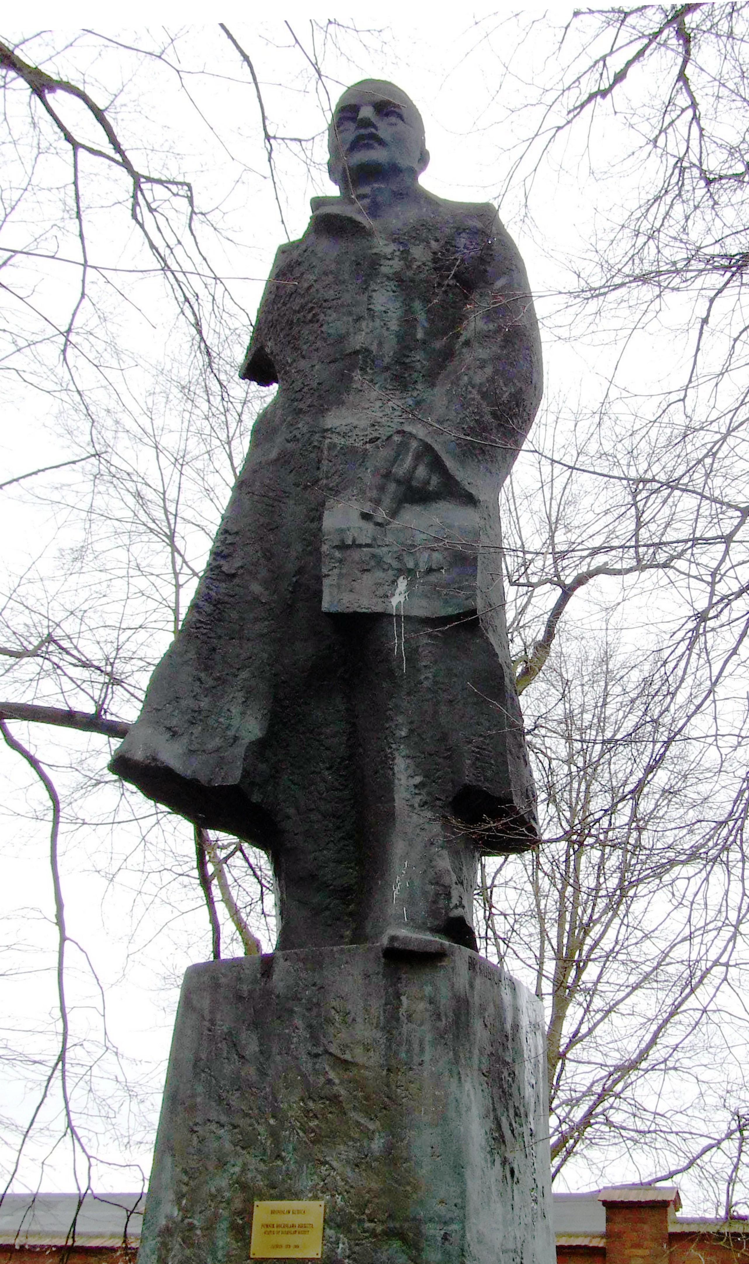 Monument of Bolesław Bierut, formerly standing in Lublin, now in Palace Park in Kozłówka. The missing hand (broken during transport) is also in the museum in Kozłówka.